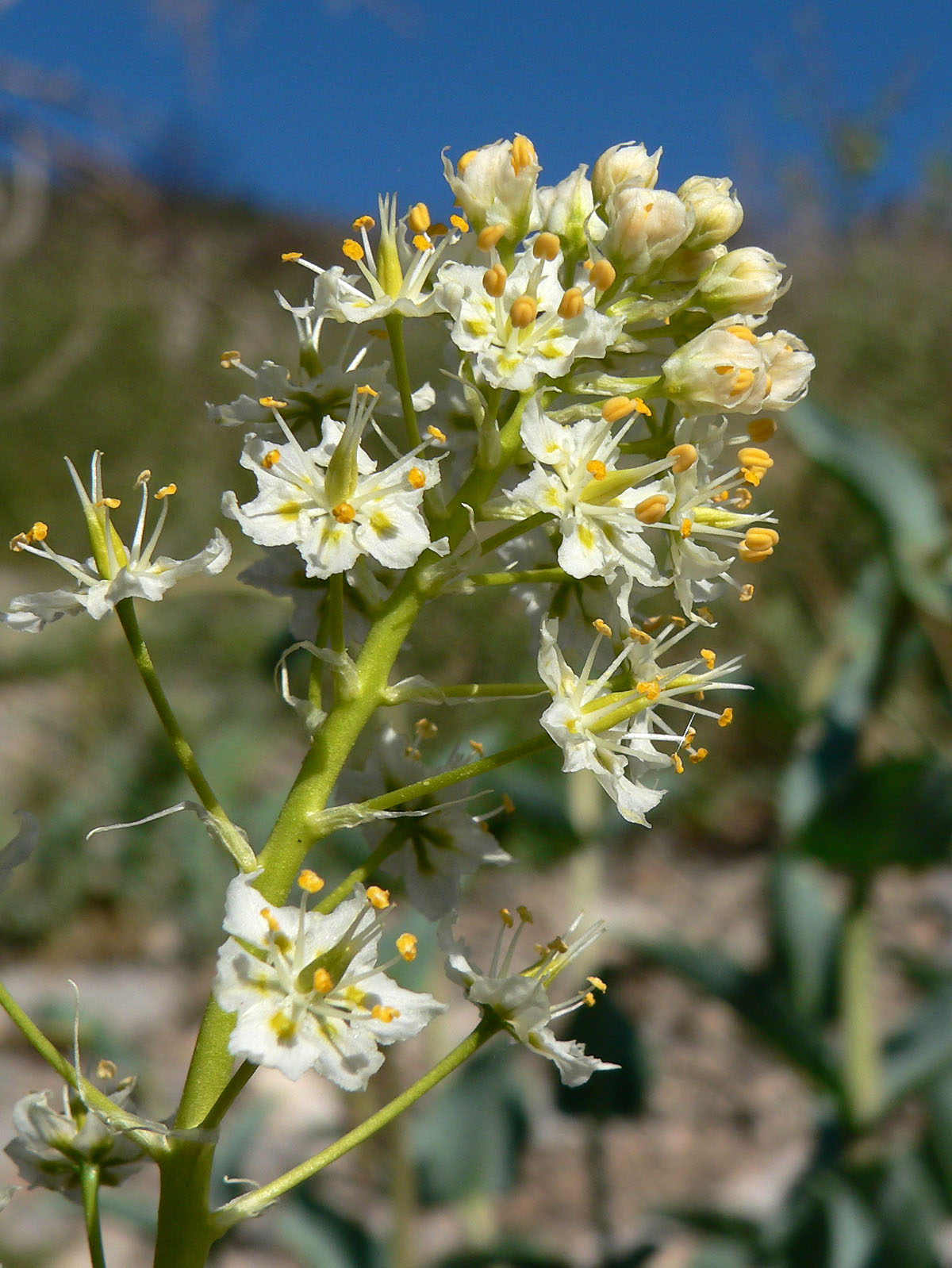 Zigadenus paniculatus in burned area off 158 near Robbers Roost, Spring Mountains, southern Nevada